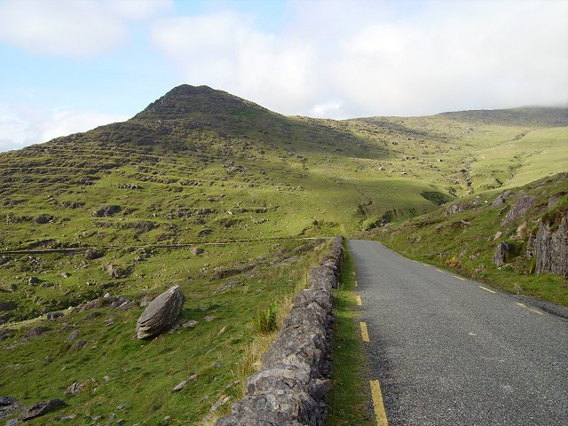 Stookeennaloakareha above the Healy Pass. Descent of the Kerry side.